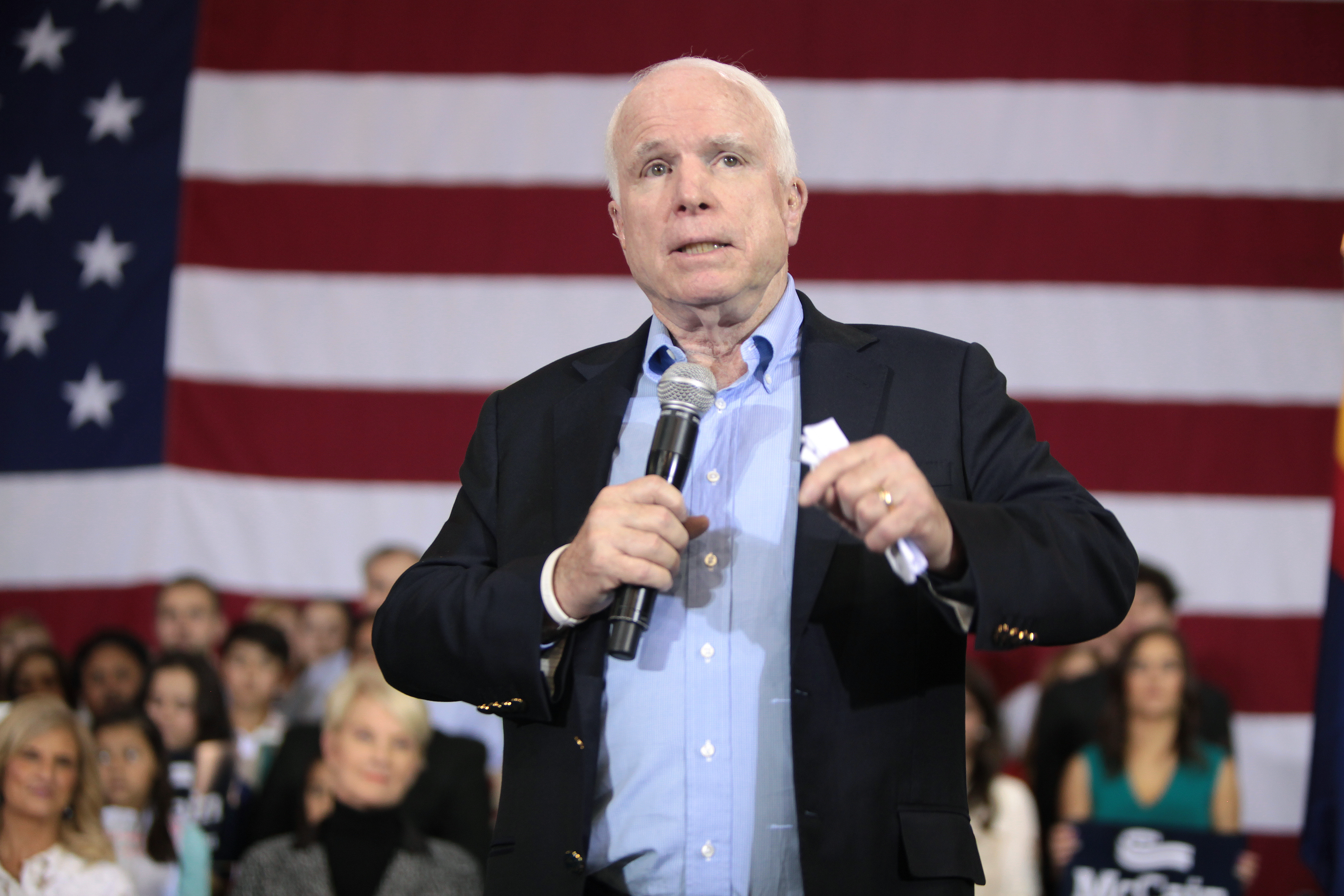 U.S. Senator John McCain speaking with supporters at a campaign rally, along with former Governor Mitt Romney, at Dobson High School in Mesa, Arizona.